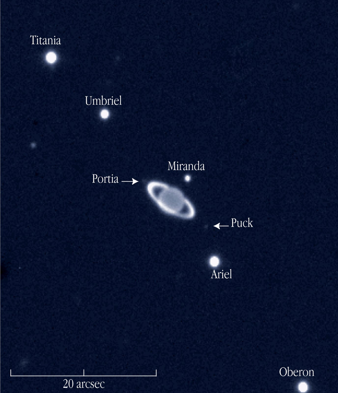 A near-infrared view of the giant planet Uranus with rings and some of its moons, obtained on November 19, 2002, with the ISAAC multi-mode instrument on the 8.2-m VLT ANTU telescope at the ESO Paranal Observatory (Chile). The moons are identified; the unidentified, round object to the left is a background star. The image scale in indicated by the bar.